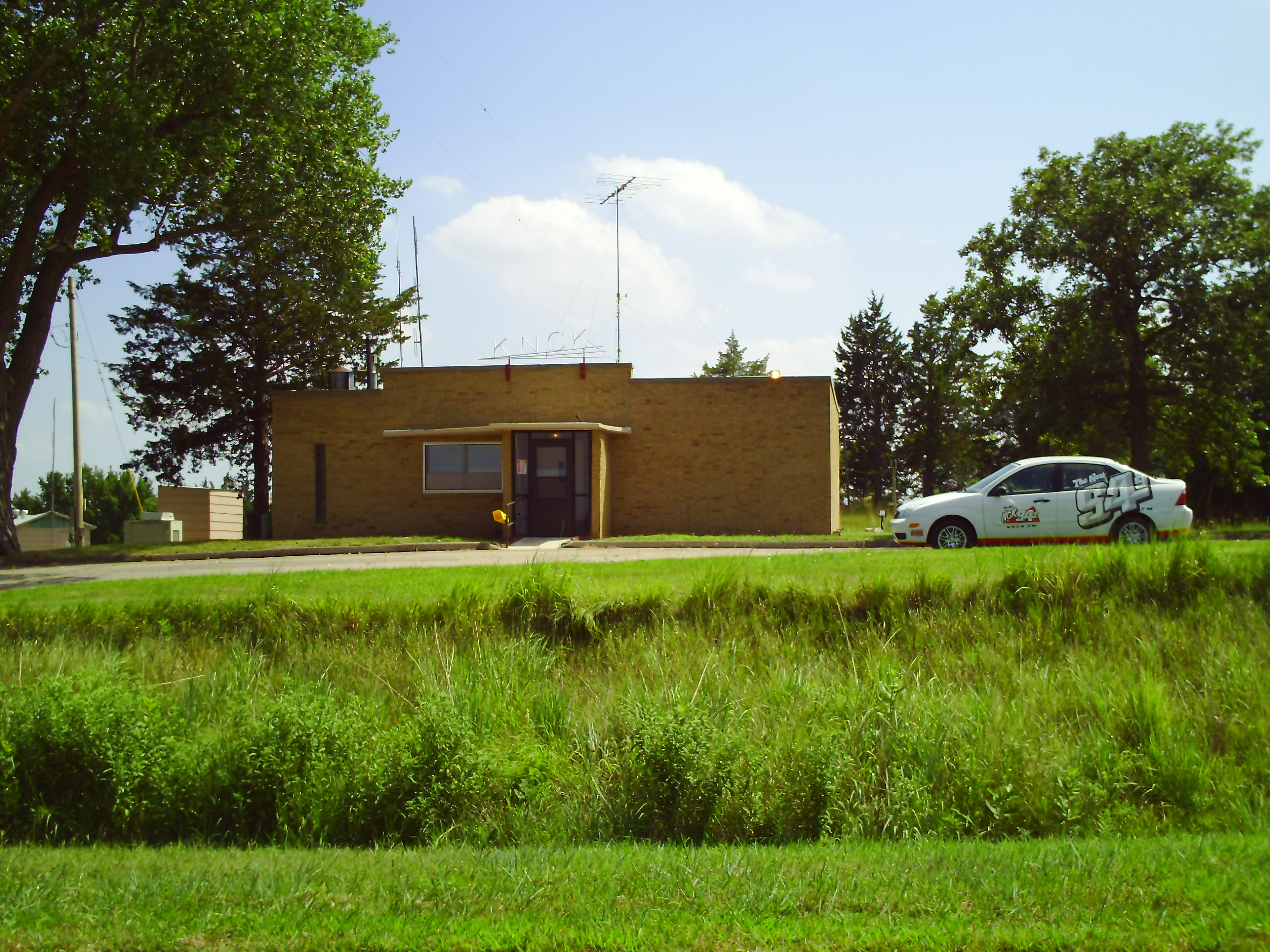 Building of KNCK (AM) and KNCK-FM radio stations in Concordia, Kansas